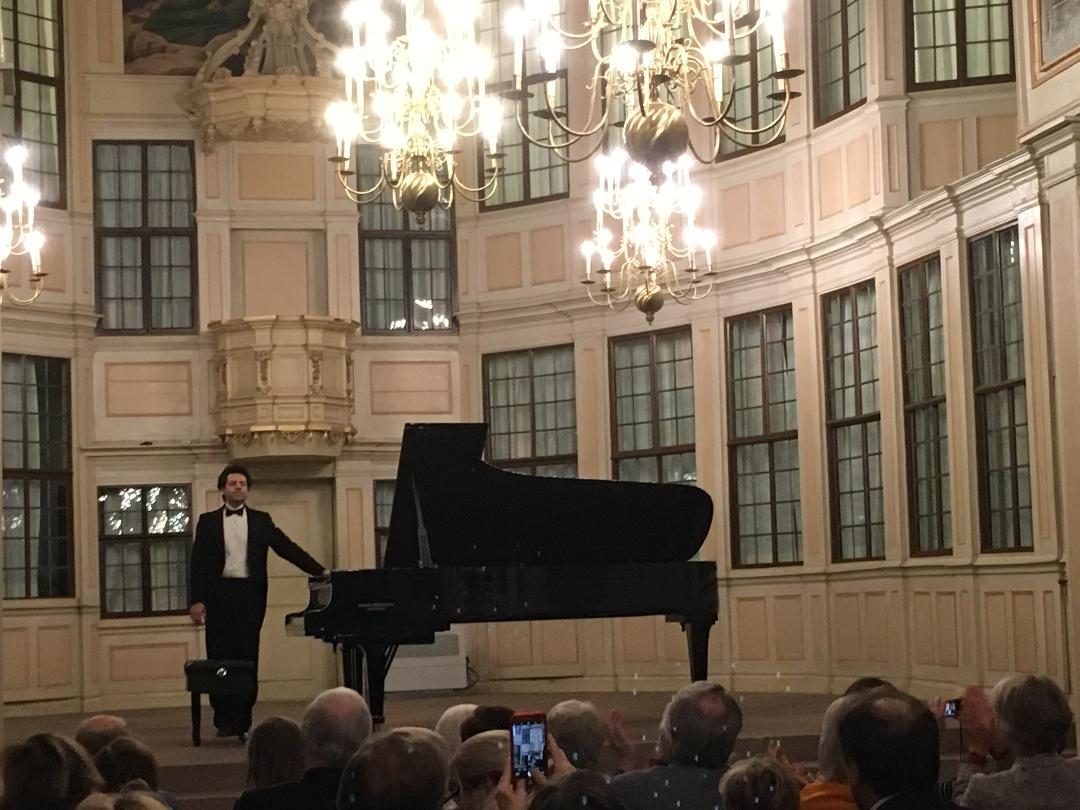 Roman Zaslavsky, Schlosskirche Bad Homburg, Germany